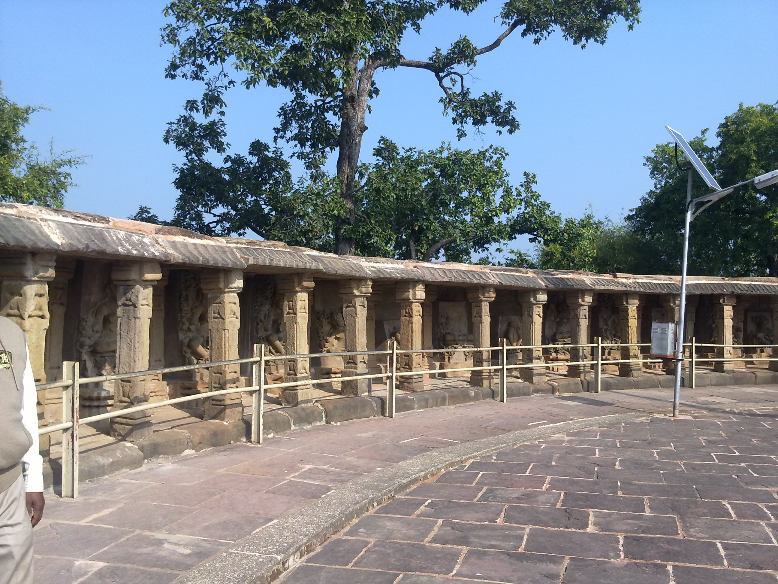 Image of Chausath Yogini Temple, Jabalpur